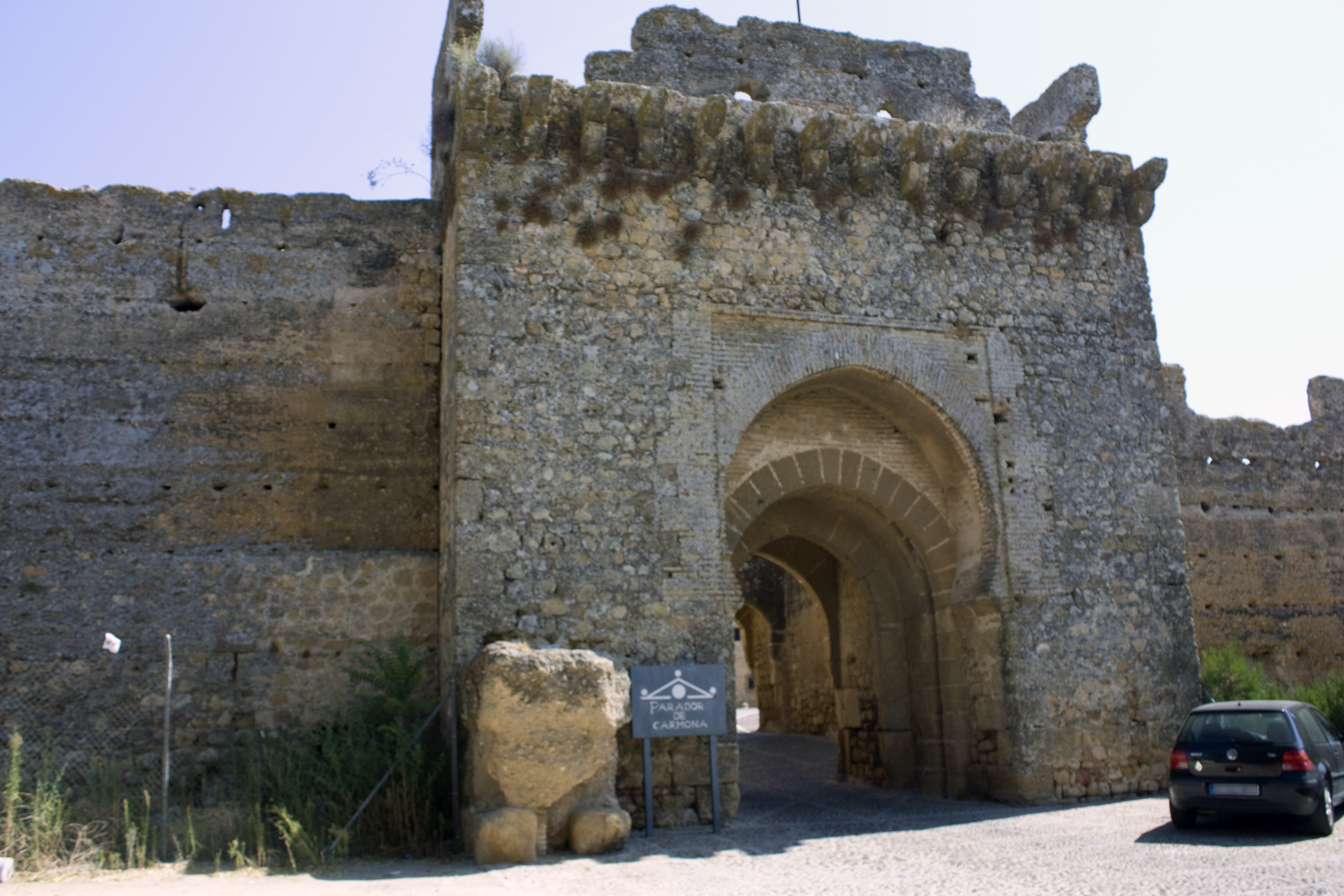 Porte de Marchena, gateway to the Alcazar.